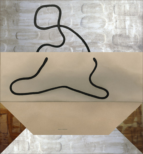 A work from the book Bagit! drawn from a J. Crew bag